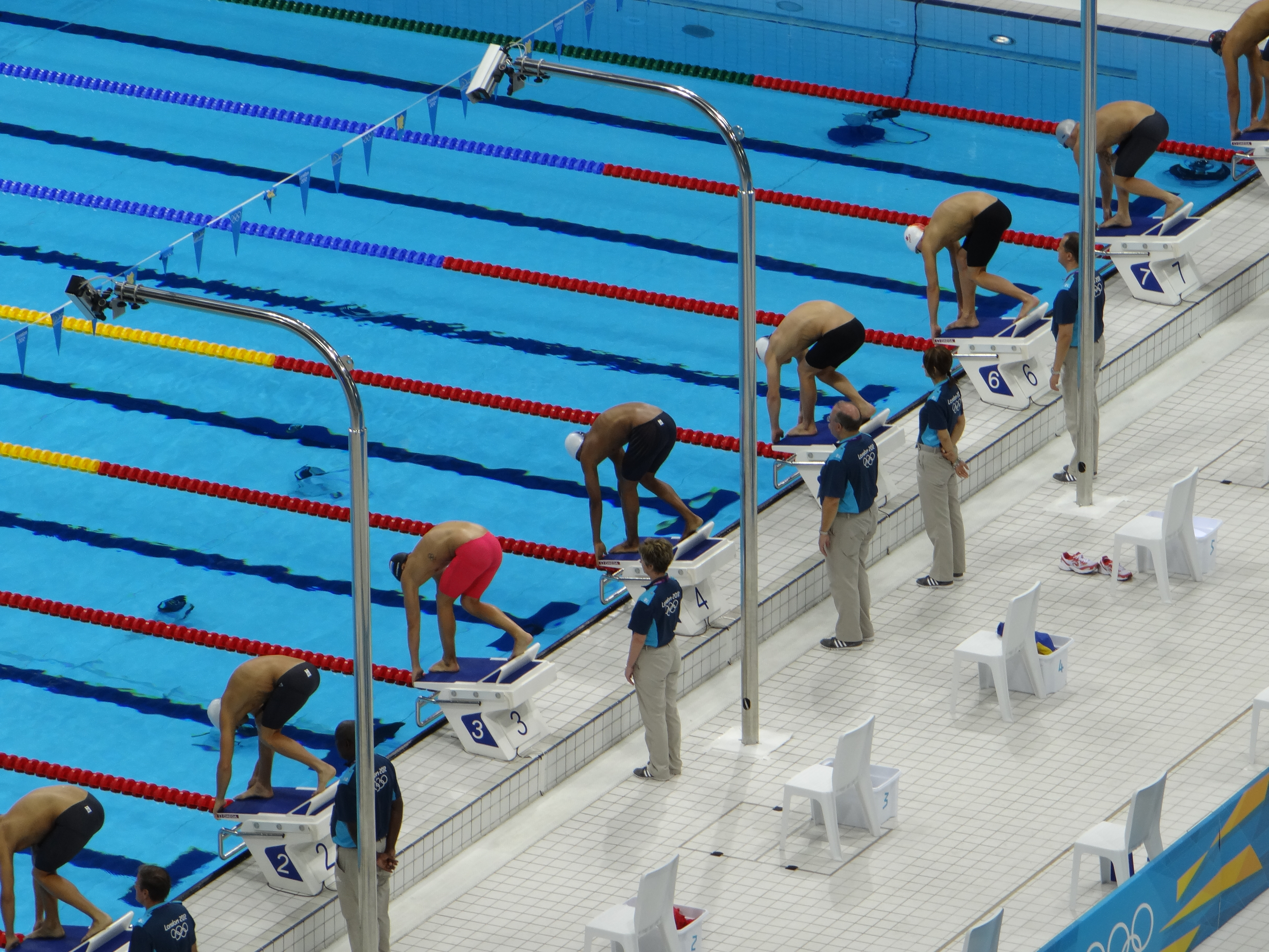 London 2012 Olympics Aquatics Centre Swimmers. Men's 200m Individual Medley heat 2.